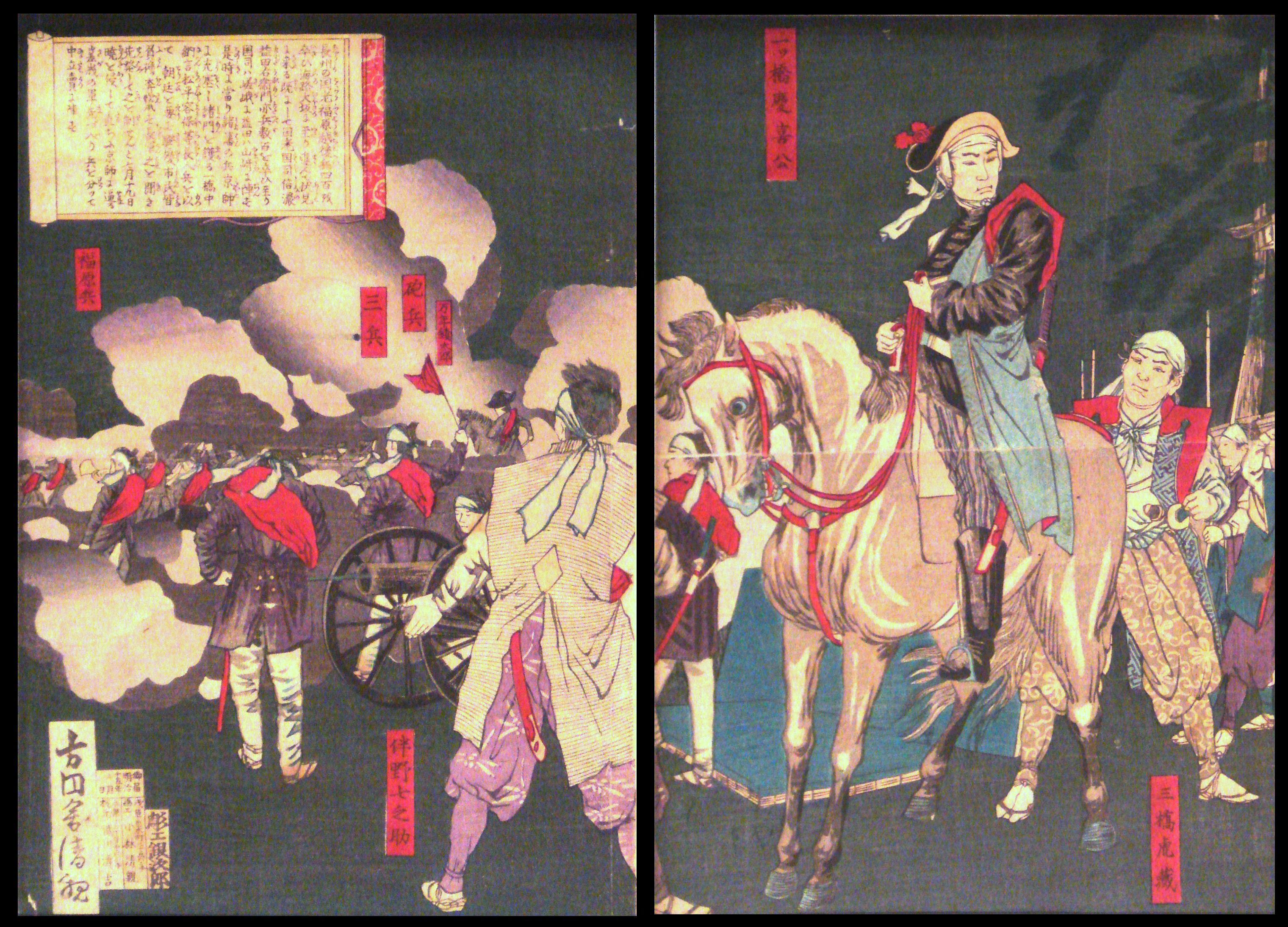 Tokugawa_Yoshinobu_organizing_defenses_at_Osaka_castle